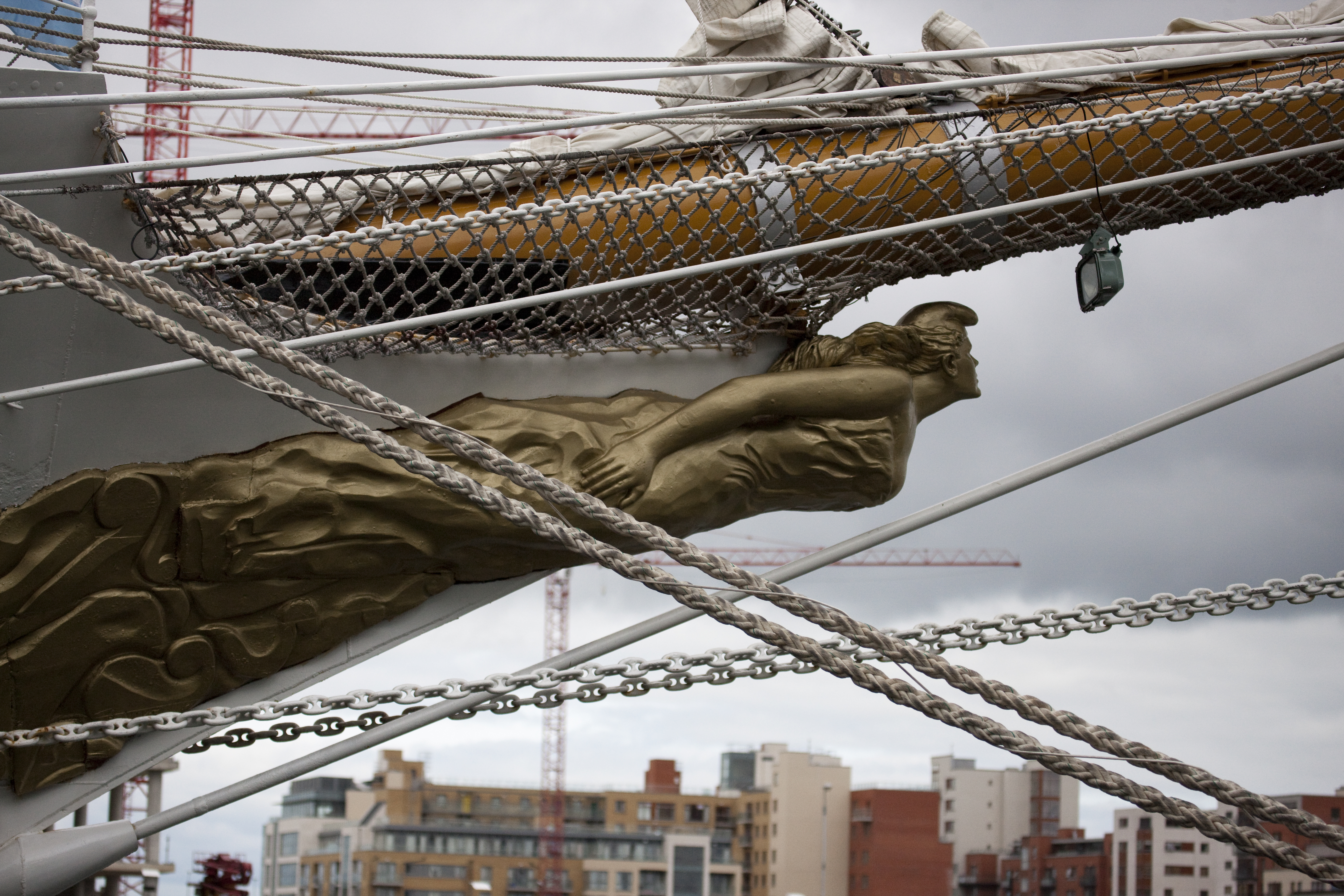 ARA Libertad (Q-2) is a tall ship which serves as a school ship in the Argentine Navy. She was built in the 1950s at the Rio Santiago shipyards near Buenos Aires, Argentina. Her maiden voyage was in 1962, and she continues to be a school ship with yearly instruction voyages for the graduating naval cadets. She has just finished (April 2007) undergoing a general overhaul which includes the addition of facilities for female cadets and crew in line with current diversity policies in the Navy and the updating of the engines and navigation technology. Her main characteristics are: Length (including bowsprit): 103.75m; Beam: 14.31m; Draft: 6.60m; Displacement: 3765 Tonnes; Masts: 3; Crew: 357 souls (including 150 naval cadets). Rigging: Square rigged. Three masts (Fore, Main and Mizzen with boom) and bowsprit, with double topsails and 5 yardarms per mast, which can balance up to 45 degrees on each side. Five jibs are fixed to the bowsprit, the foremast has 5 square sails and two jibs, the mainmast has 5 square sails and 3 jibs and the mizzen has 5 square sails and a spanker. Sail area: 2.652 sq. metres; max. height of mainmast 56,2 metres. Armament: Four 47 mm cannons, 1891 model, which were transferred from the previous School Ship ARA Presidente Sarmiento used as a salute battery. She won the Boston Teapot Trophy in 1966, 1976, 1981, 1987, 1992 and 1998 In 1966 she established the world record for transatlantic crossing (only sail navigation) between Capr Race (Canada) and Dursey Island (Ireland), 1,741.4 nautical miles (3,225.1 km) in 6 days and 4 hours.